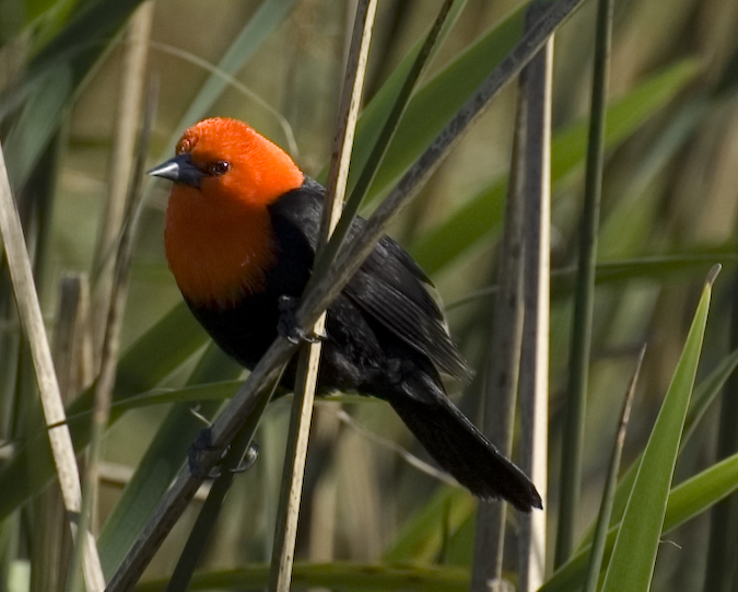 FEDERAL Amblyramphus holosericeus